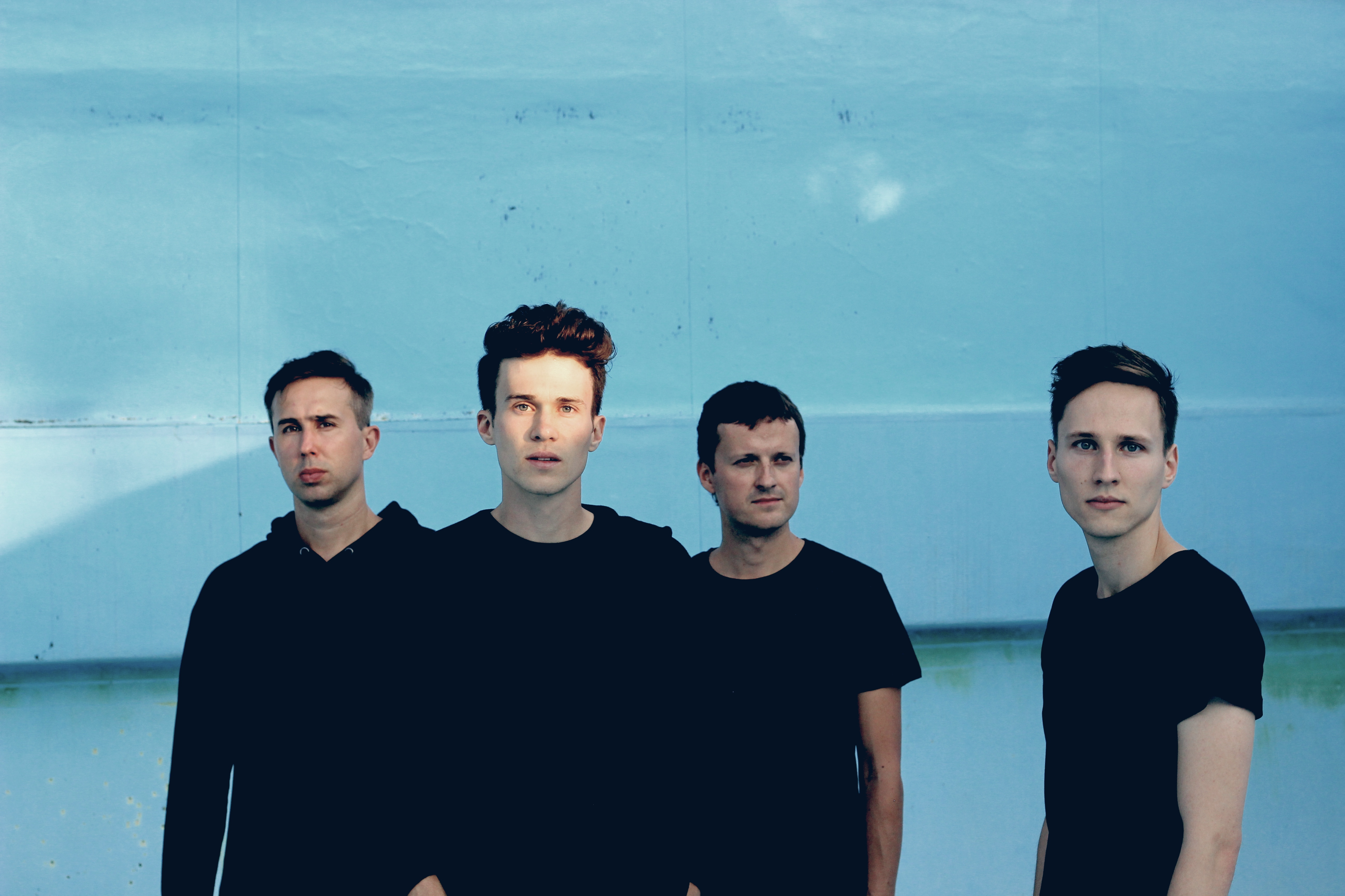 The photo of the band Lake Malawi